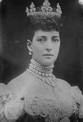 Dowager Queen Alexandra